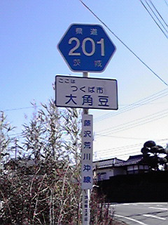 The Ibaraki prefectural route 201 sign in Sasagi, Tsukuba city, Ibaraki Prefecture, Japan.